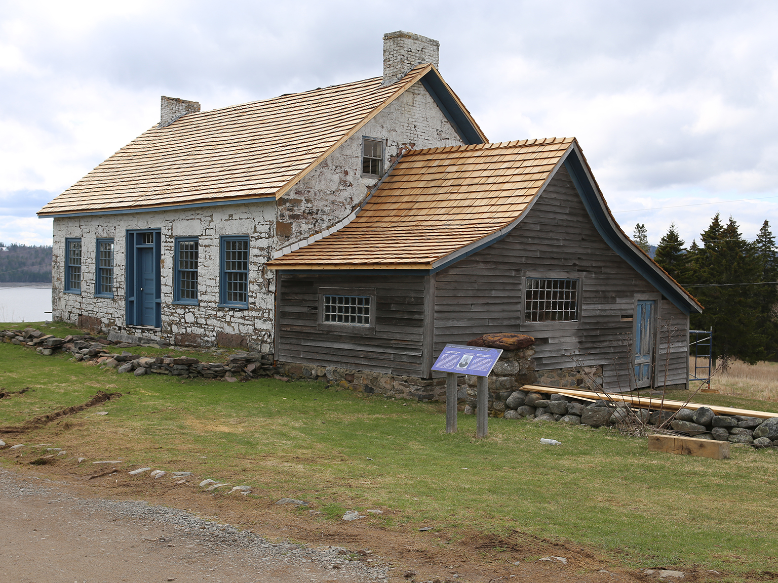 Home of Rev. Samuel Andrews. Built c. 1788 - 1791. This photograph c. 1985, showing Edward Marxwell addition of 1904. Charlotte County Archives